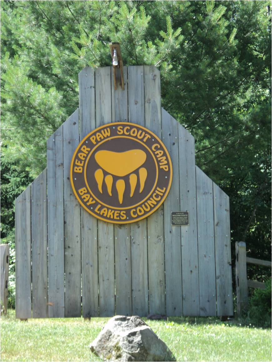 The sign at the main entrance to Bear Paw Scout Camp in Wisconsin (see Bay-Lakes Council)